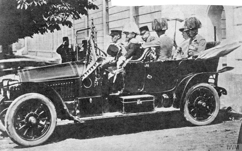 The Assassination of Archduke Franz Ferdinand, June 1914 Archduke Ferdinand and his wife on an official visit to Sarajevo in June 1914, shortly before their assassination by Gavrilo Princip.